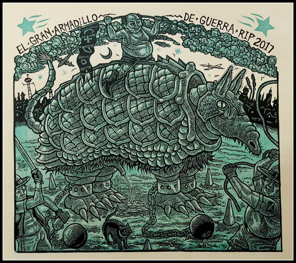 chiaroscuro woodcut by Tom Huck